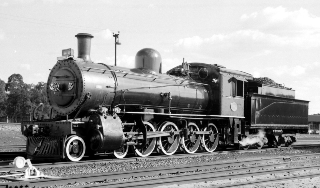 Ex Cape Government Railways Class 8 788 (4-8-0) South African Railways Class 8D 1223 (4-8-0) Location: Bloemfontein Loco